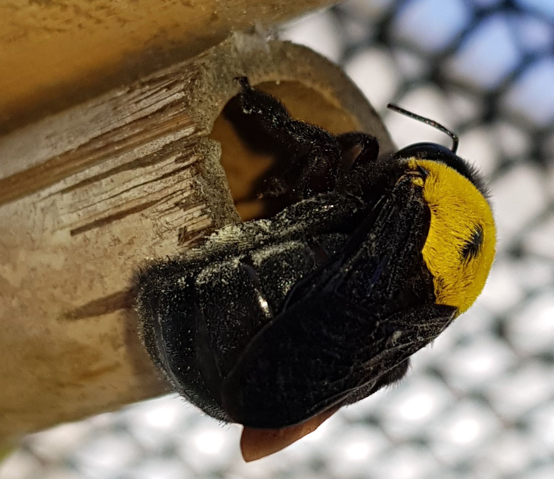 A female Xylocopa pubescens and a young offspring. The solitary nest is in a dry bamboo cane. (Tel Aviv, April 2019)